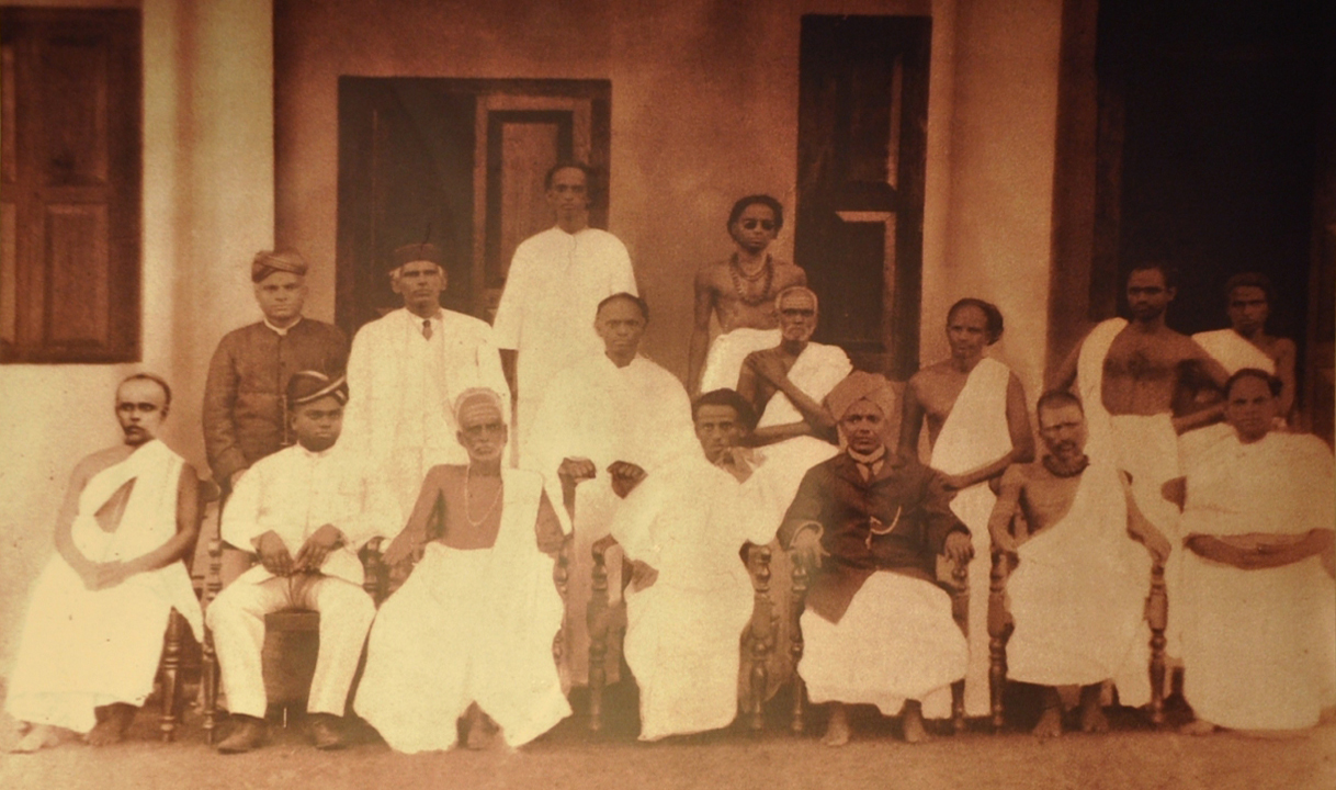 Bharatha Vilasam Sabha - AD 1909 Men sitting, left to right: Kottarathil Sankunni, Ulloor S. Parameswara Iyer, Naduvath Achan Nampoothiri, Ramavarma Appan Thampuran, Kodungalloor Kunhikuttan Thampuran, Punnassery Nambi Neelakanda Sarma, Panthalath Kerala Varma Thampuran Men standing, left to right: Oduvil Kunhikrishna Menaon, Kundoor Narayana Menon, Naduvath Mahan Nampoothiri, Kathullil Achutha Menon, Pettariyam Valiyanilayath, Vallathol Narayana Menon, C. V. Krishnanilayath Men standing (2nd row), left to right: Chan garam Kothakrishnan Kartha, Oduvil Sankarankutty Menon